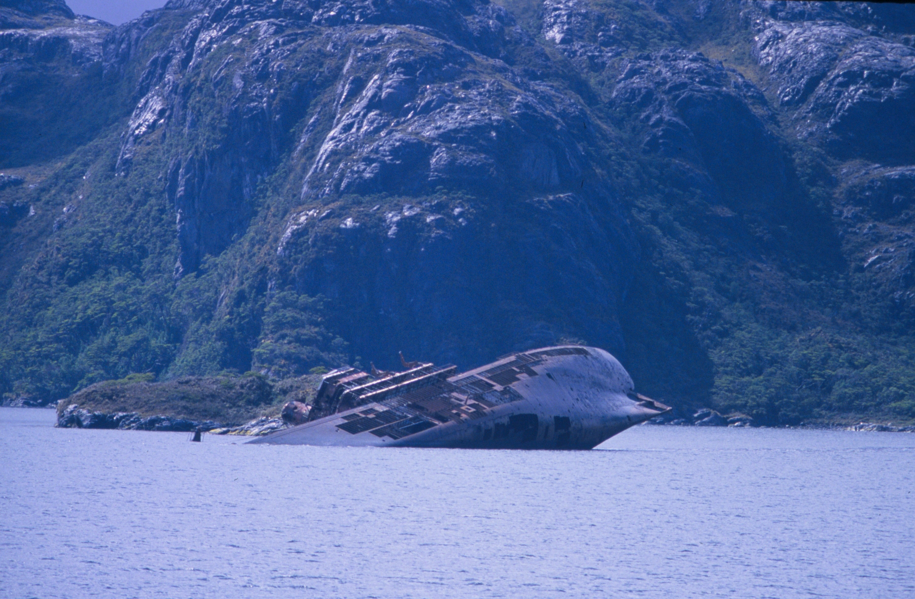 Ship wreck on the Chilean Inside Passage